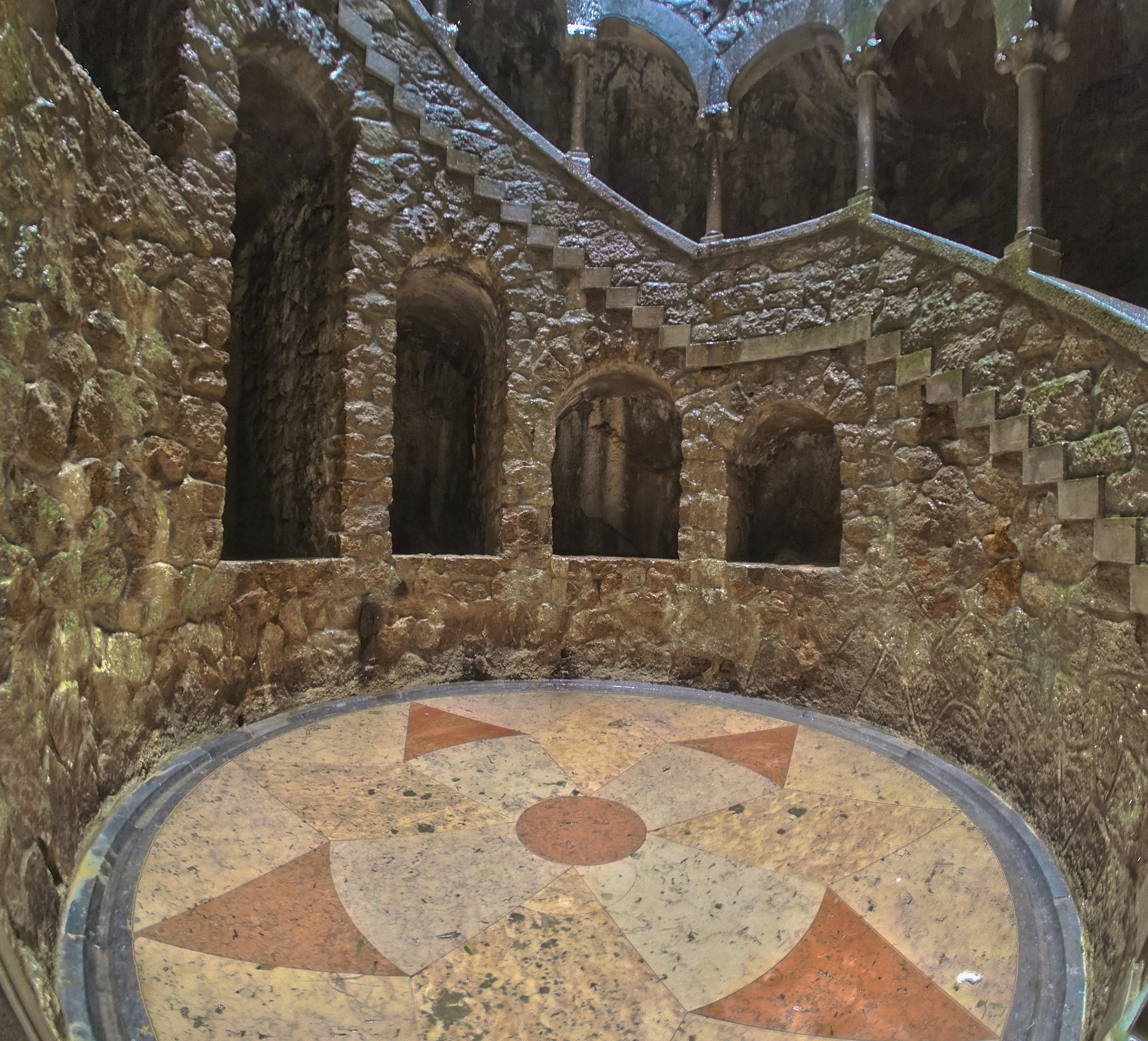 Bottom of the Initiation well at Quinta da Regaleira - this image was digitally modified for perspective (fisheye lens combined with de-fishing software); HDR